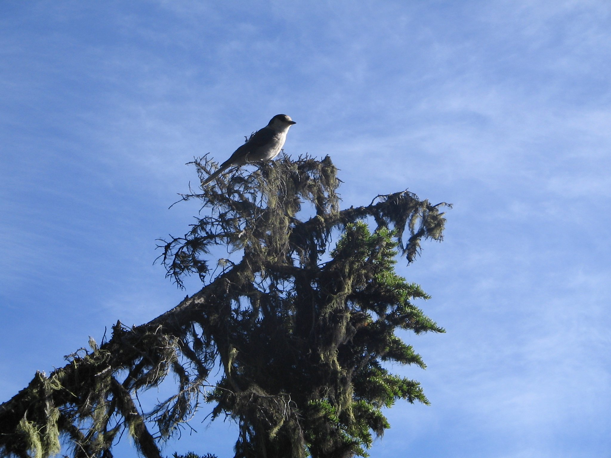 A grey jay sitting on a branch in Garibaldi Provincial Park, British Columbia, Canada.